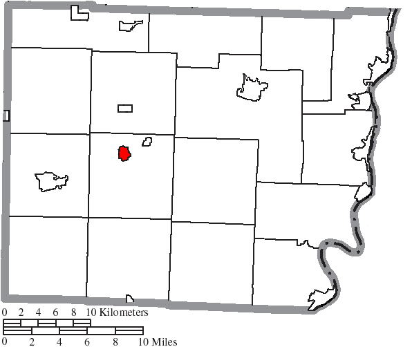 Map of the municipal and township boundaries of Belmont County, Ohio, United States, as of the 2000 census, with the location of the village of Bethesda highlighted. Township borders are shown only in unincorporated areas in order to differentiate incorporated and unincorporated areas more clearly.